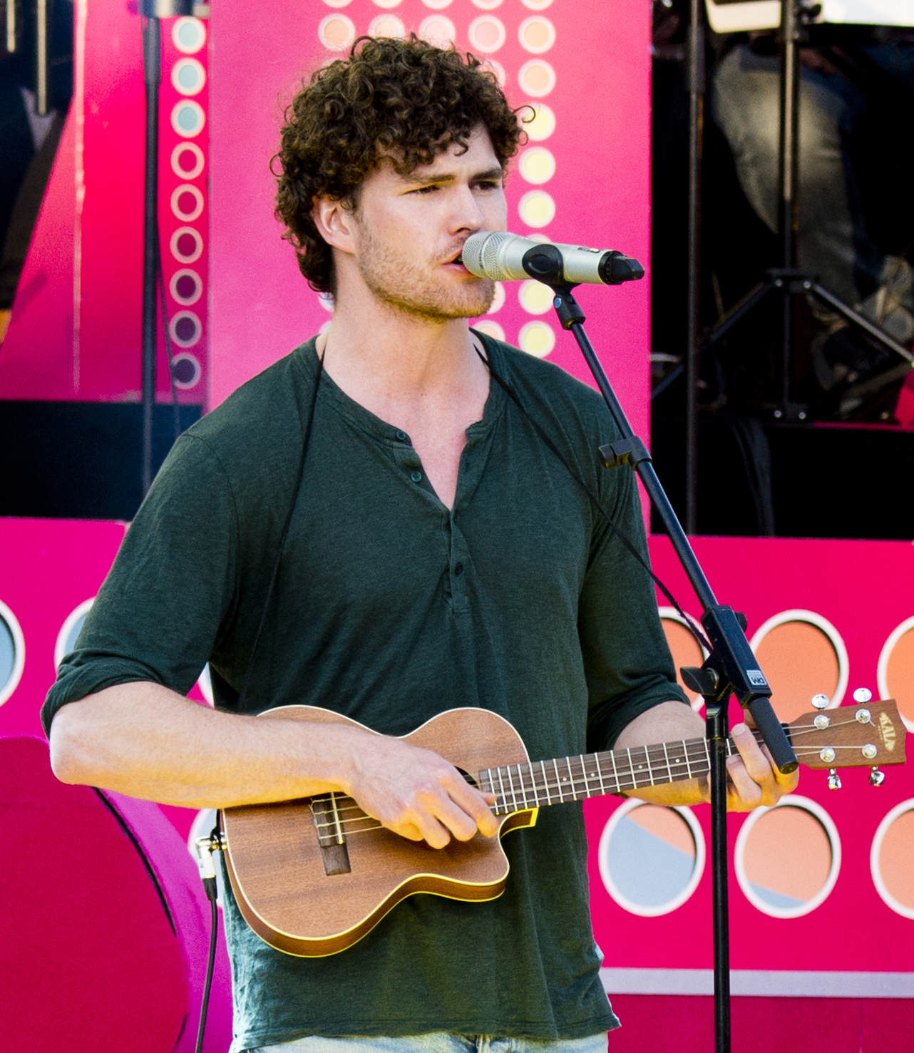 Vance Joy Performance at Sommarkrysset in Gröna Lund, Stockholm